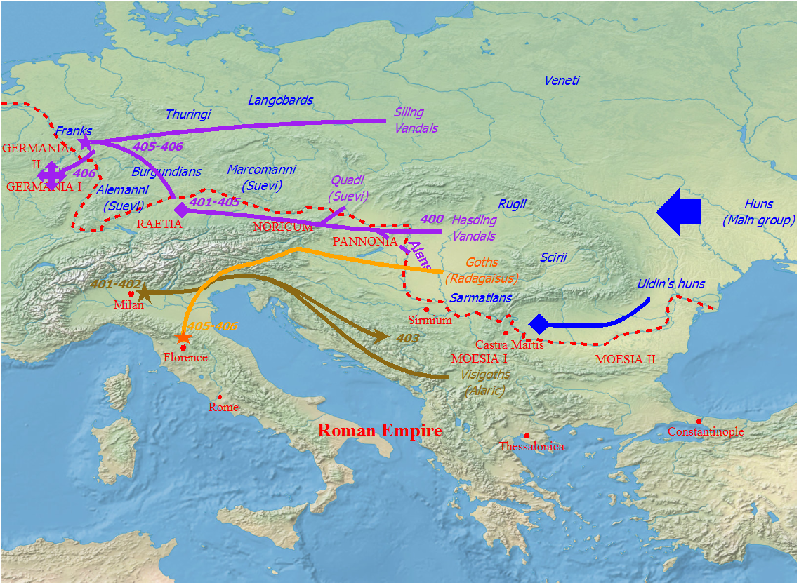 The map shows the movements of the Vandals, Alans and Quadii, plus the Visigoths of Alaric and the Goths of Radagaisus. The map is based on descriptions and maps in Torsten Jacobsen: The Vandals (2012) and Peter Heather: The Fall of the Roman Empire (2005).